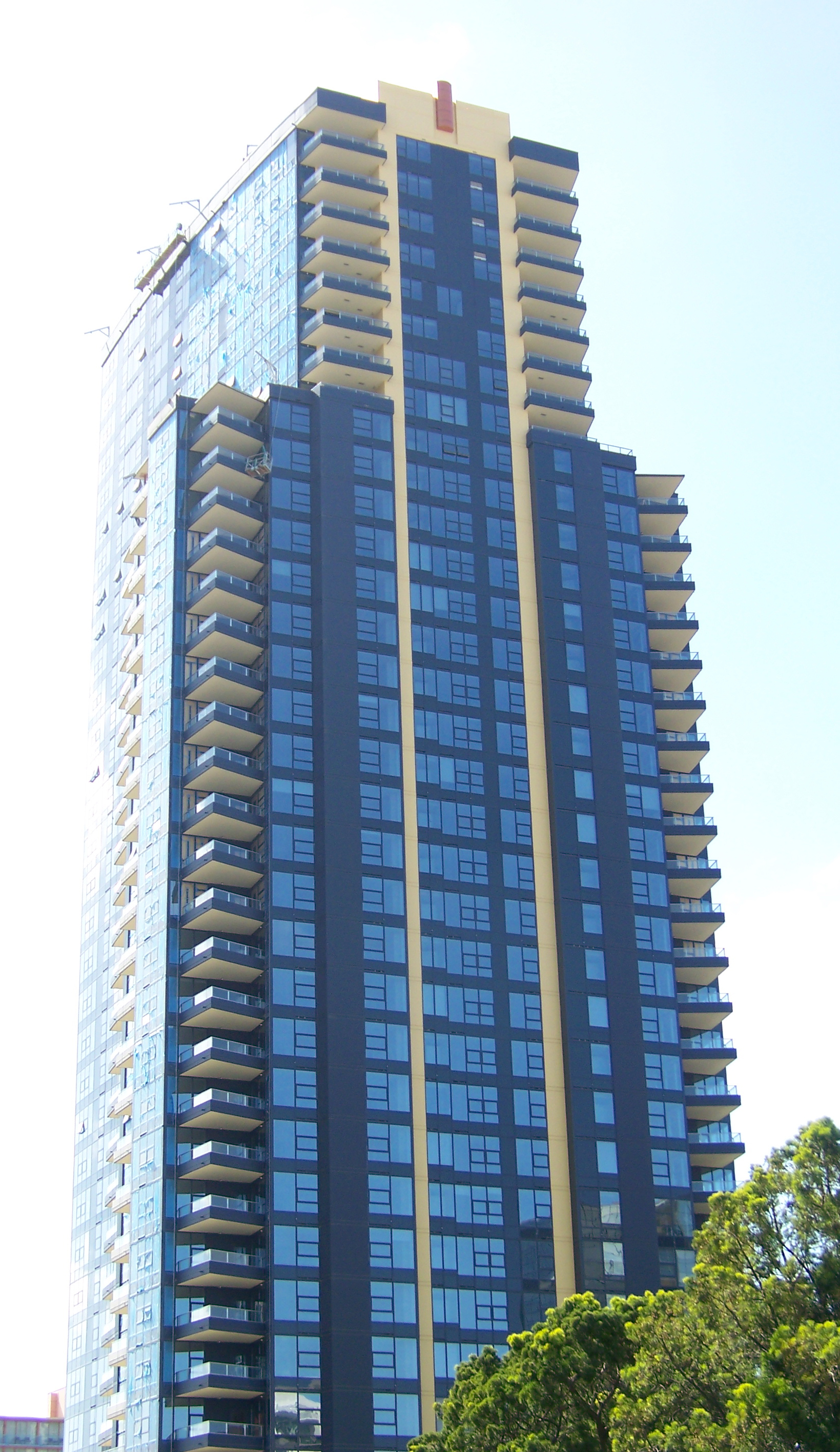 Bayside at the Embarcadero skyscraper in San Diego, California. Construction of the building is to be completed in 2009.